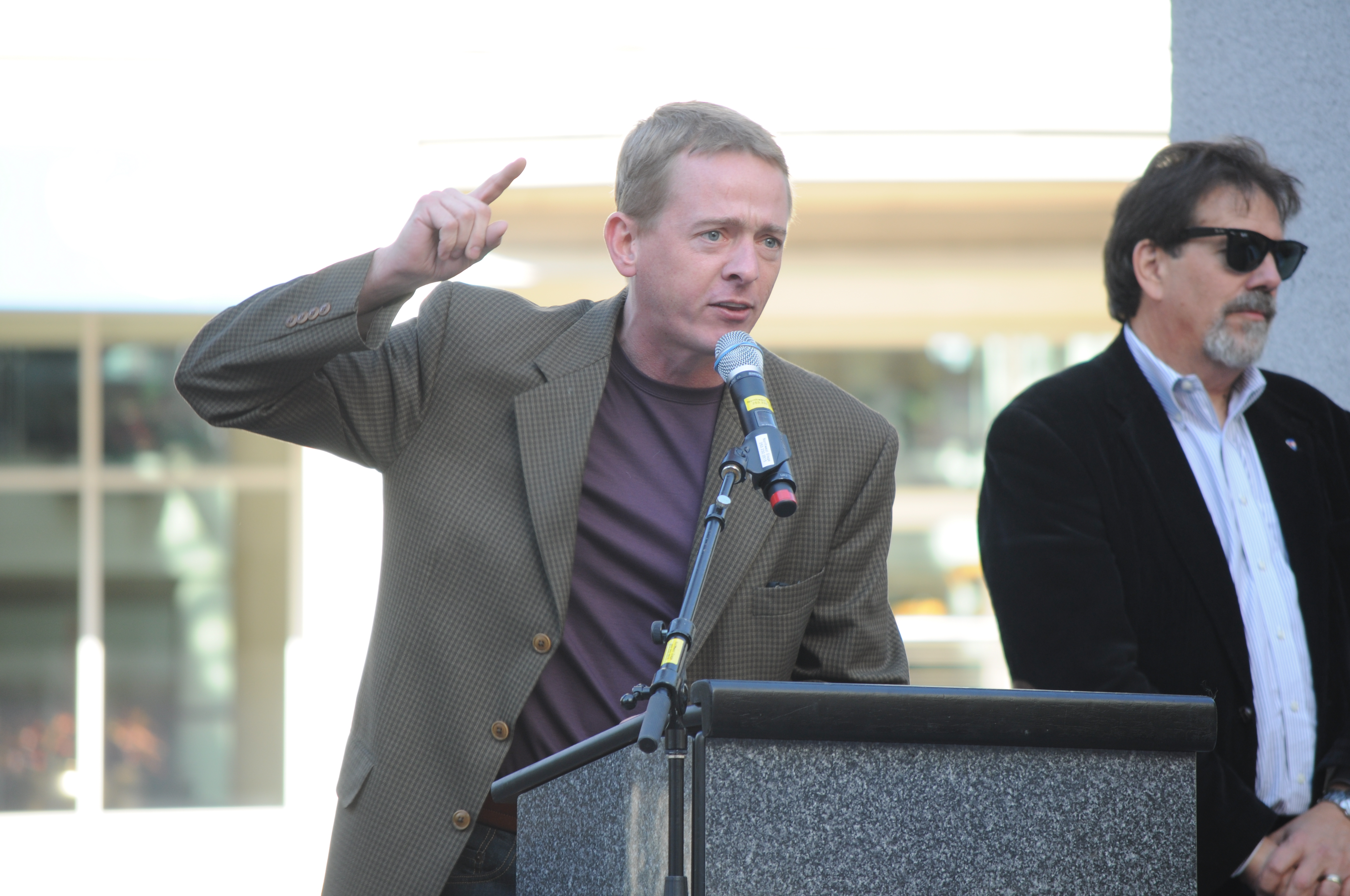 Labor leader David Rolf, Occupy Seattle rally at Westlake Park, Seattle, Washington, USA.